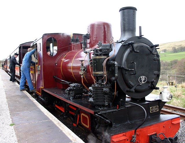 Locomotive No.10 "Nakło" - Polish locomotive Las class no. 3459 at Kirkhaugh Station